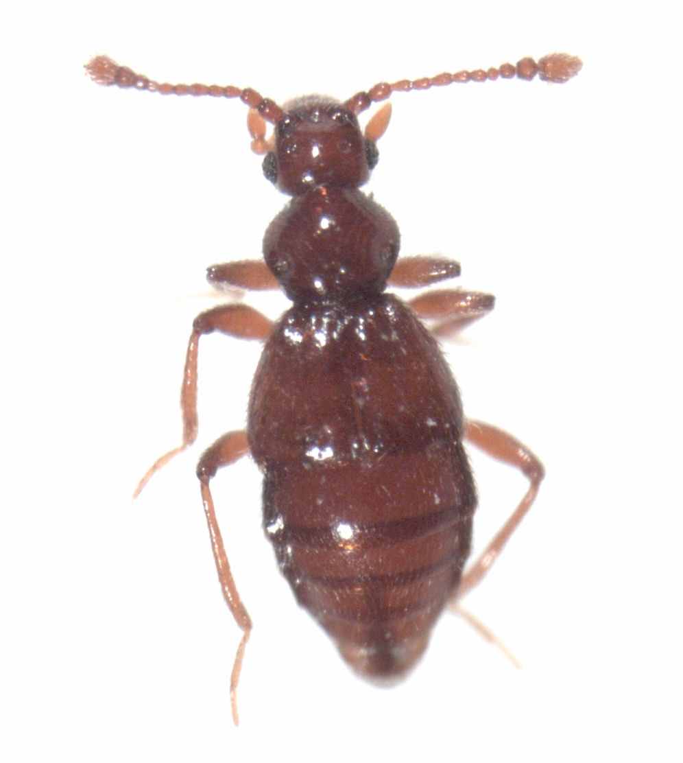 adult Anabaxis foveolata